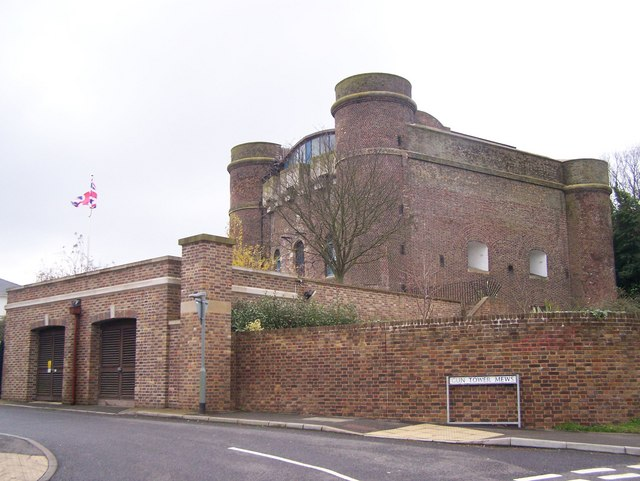 Fort Clarence, Rochester On junction of St Margarets Street and gun Tower Mews. Former military fort. Was part of the Medway group of Forts (Fort Luton, Amherst, Borstal and Horsted). Now converted into a large private house. Very good conversion keeping most of the forts brickwork. Land to rear of fort now used by Rochester Territorial Army Centre. For more details on history